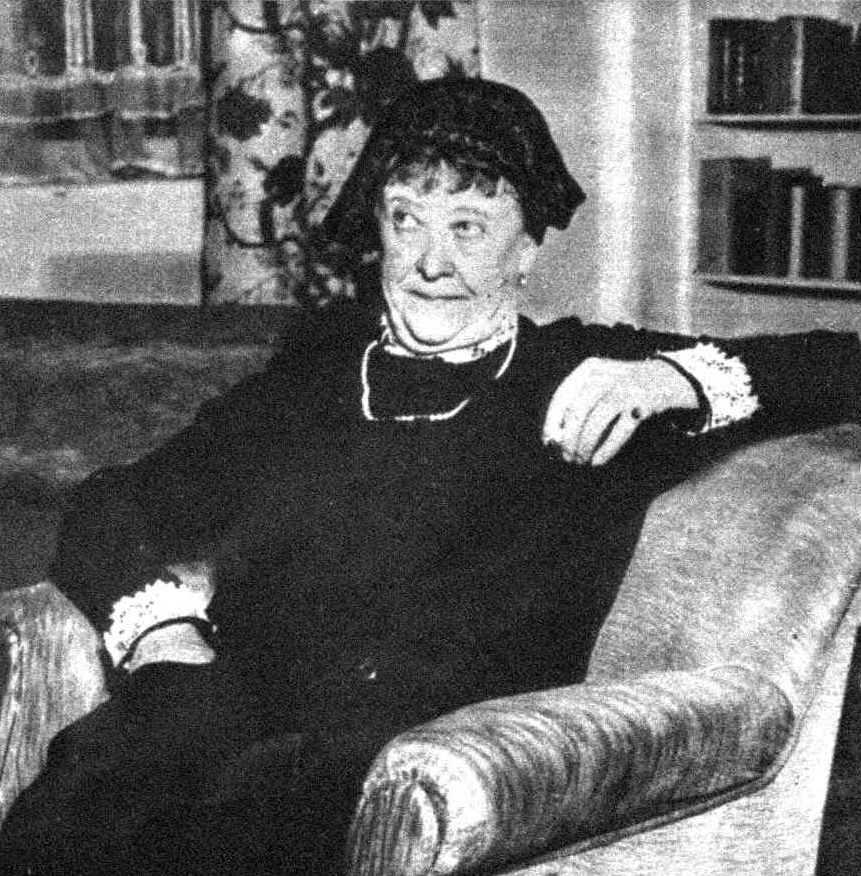 Adele Sandrock